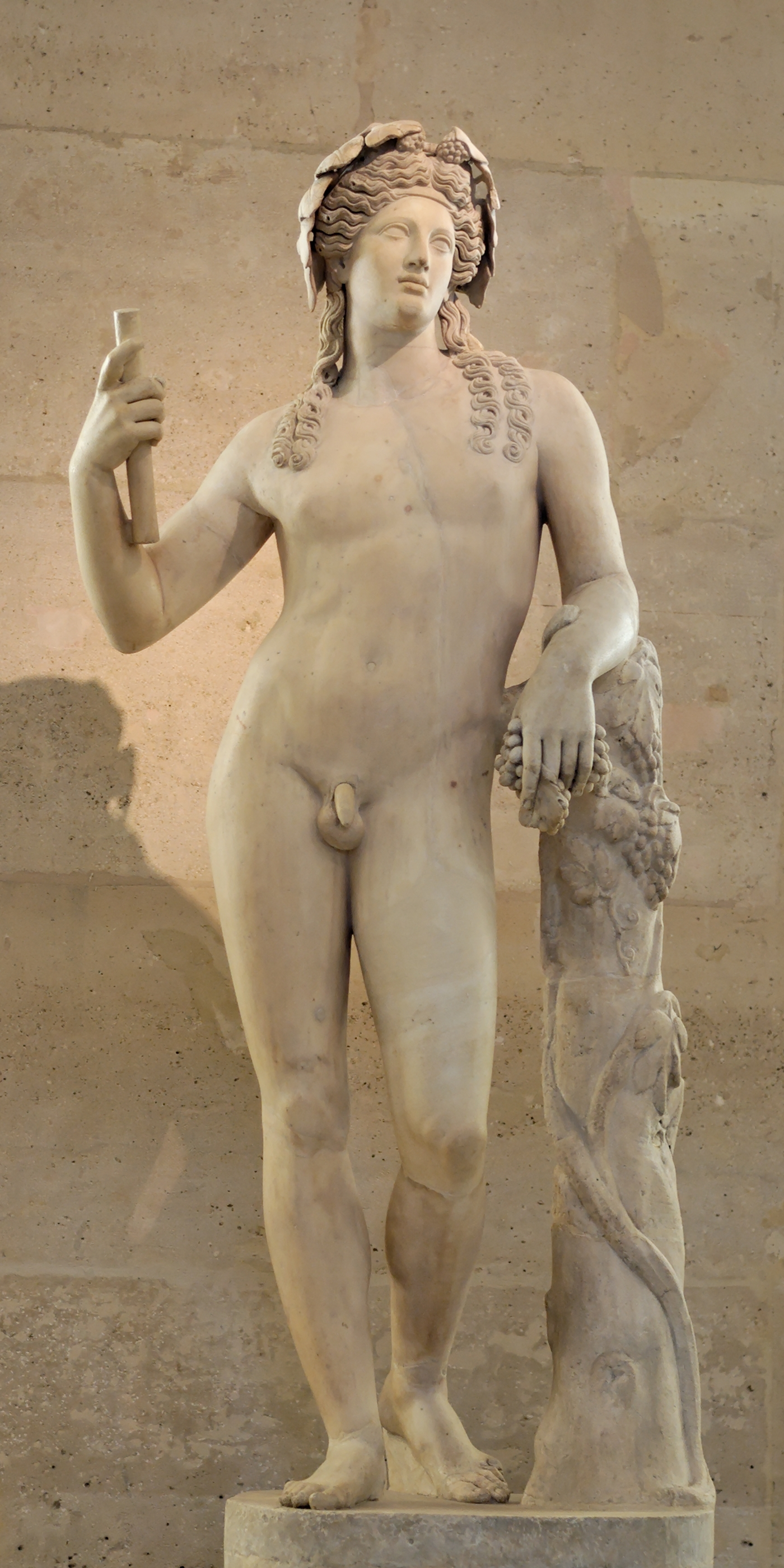 Statue of Dionysus. Marble, 2nd century CE (arms and legs were heavily restored in the 18th century), found in Italy.